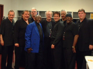 Jeff Albert (far right) with The Funk Brothers.